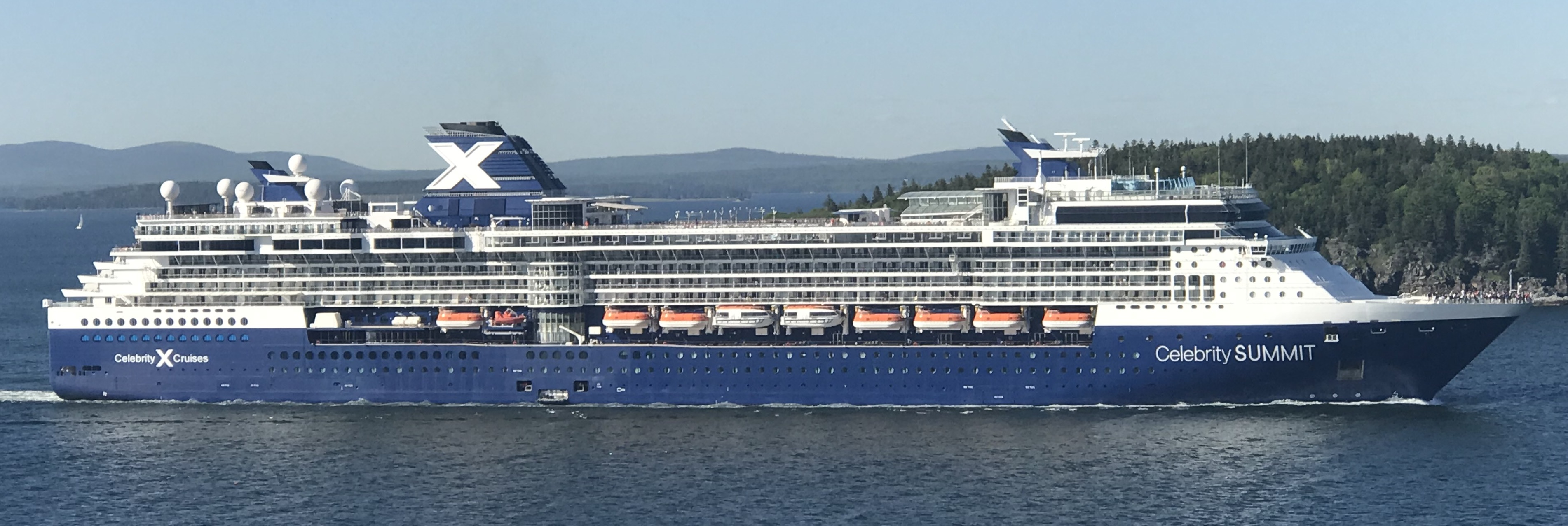 Celebrity Summit departing Bar Harbor, Maine on June 24, 2019.